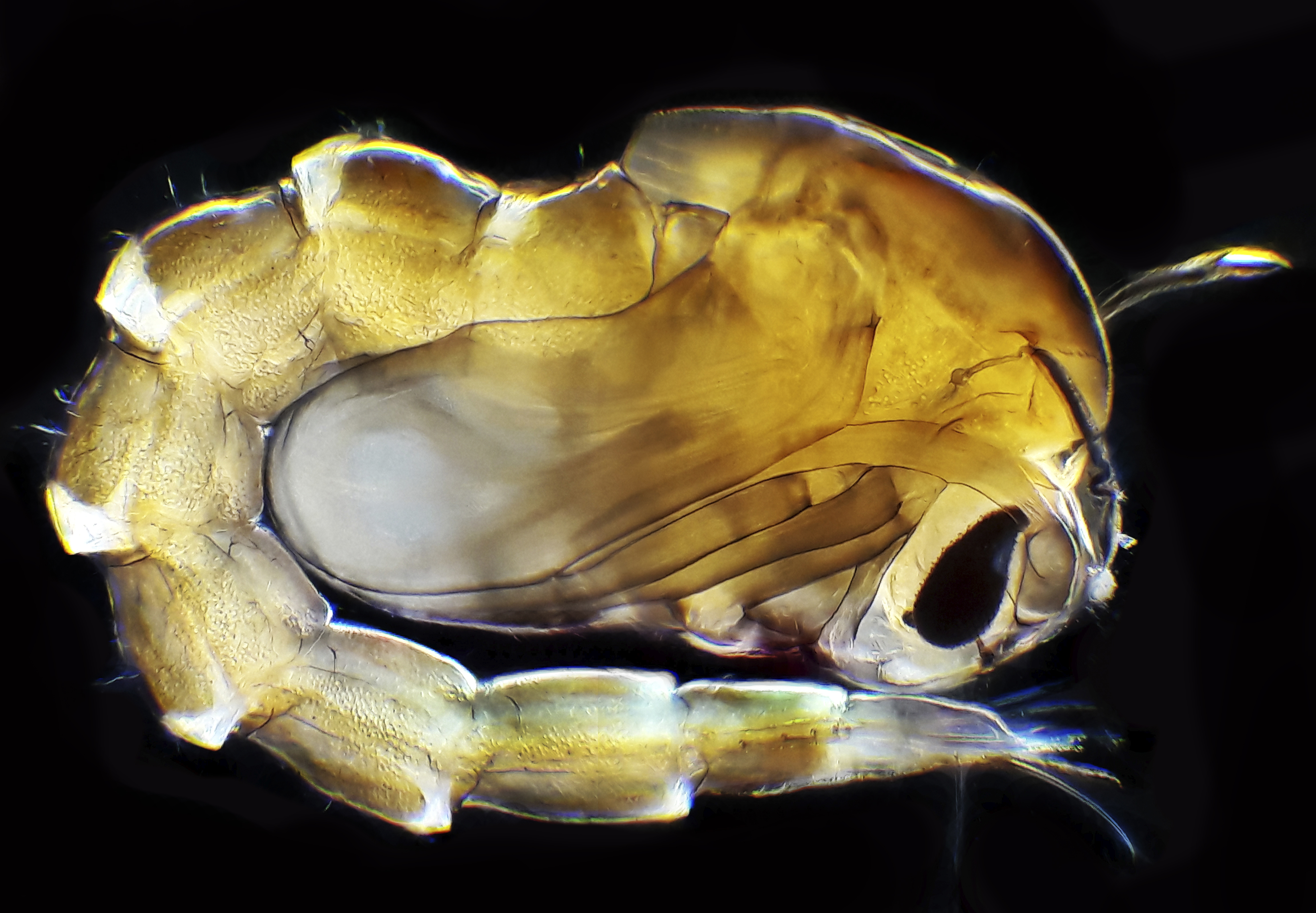 Mosquito pupa